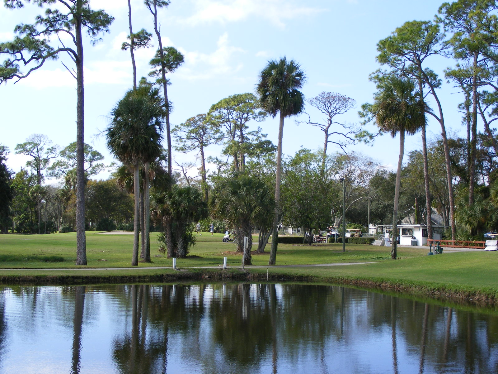 Daytona Beach Golf Course, South Course, Daytona Beach, Florida. Designed by Donald Ross in 1922.